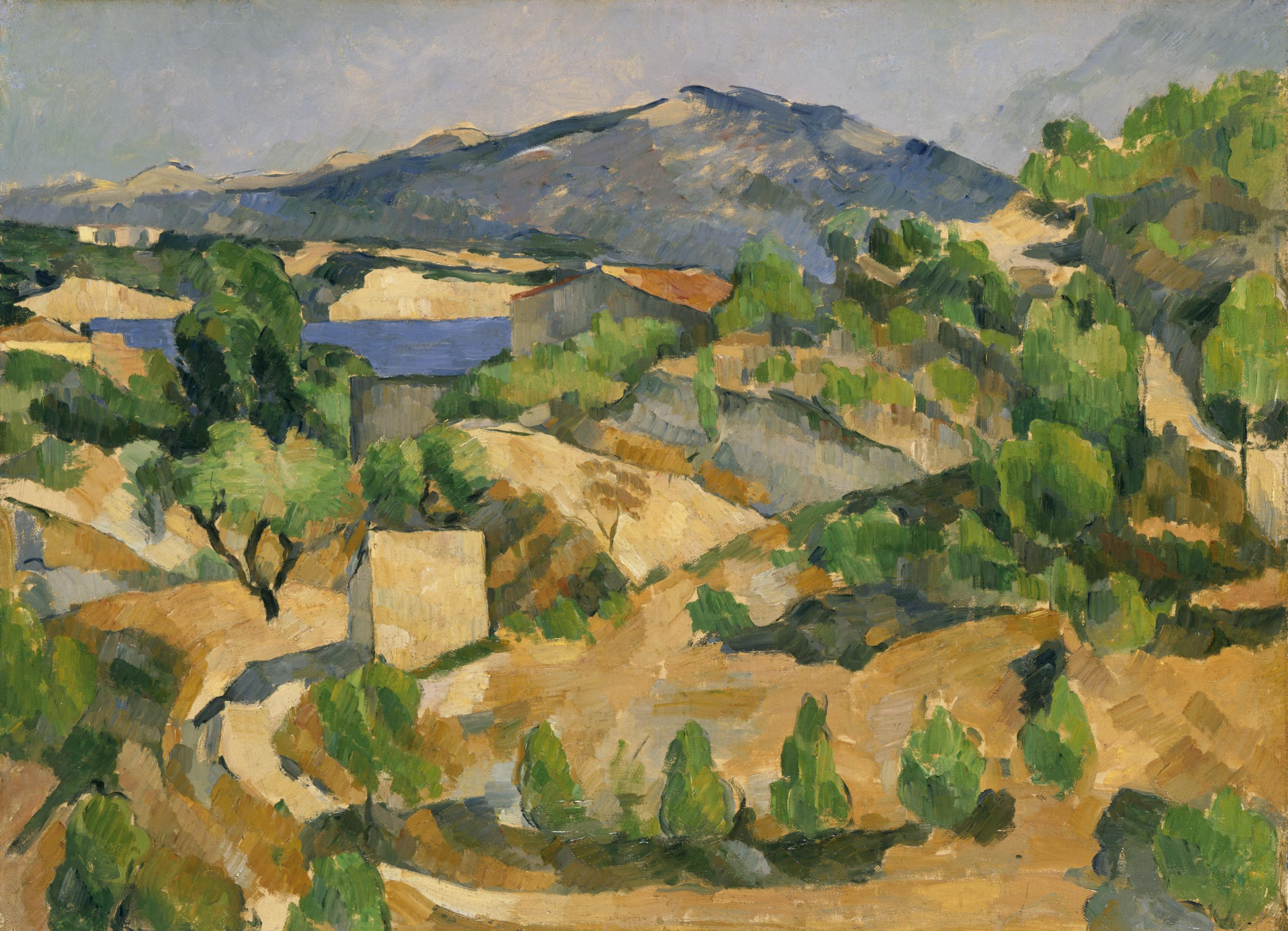 Painting of the Zola dam near Aix-en-Provence in France. The painting is at present part of the Gwendolyn and Margaret Davies collection of the National Museum of Wales in Cardiff